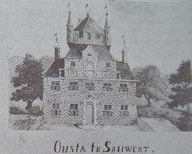 Drawing of the Onstaborg in Sauwerd from the 19th century. However, the building was already demolished at the time of drawing.